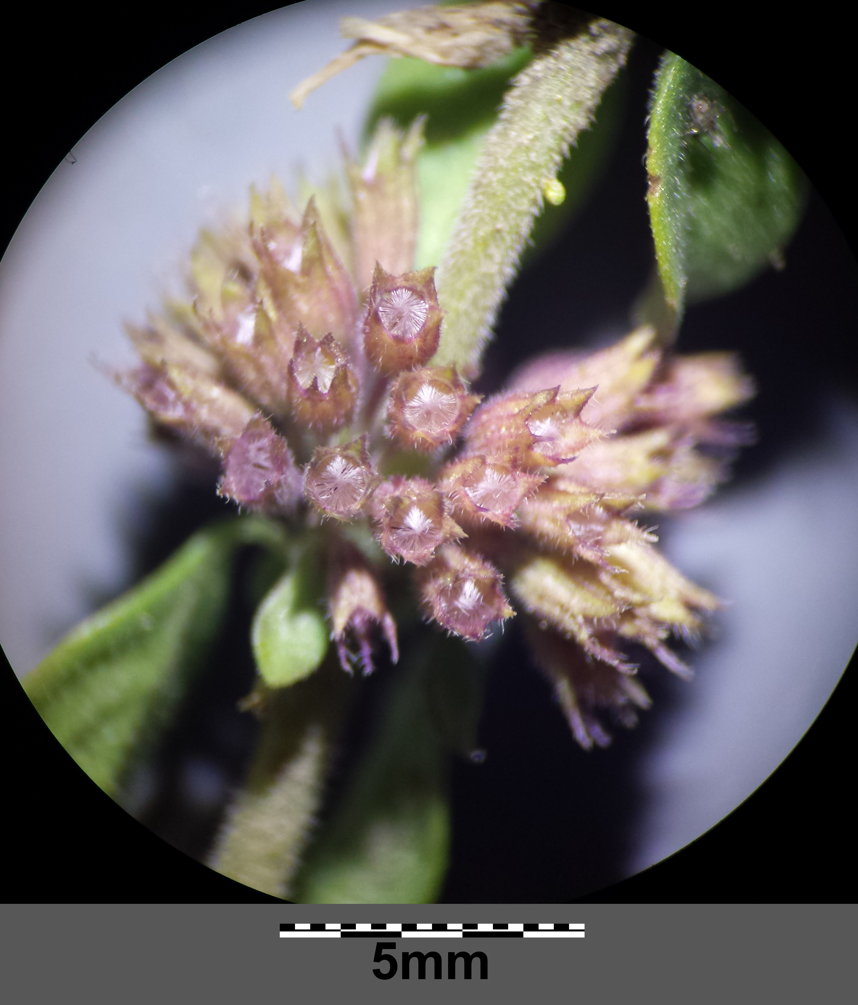 Stem with leaves and verticillaster (fruiting) Taxonym: Mentha pulegium ss Fischer et al. EfÖLS 2008 ISBN 978-3-85474-187-9 Location: pond near Michelstetten, district Mistelbach, Lower Austria - ca. 250 m a.s.l. Habitat: shore of a pond